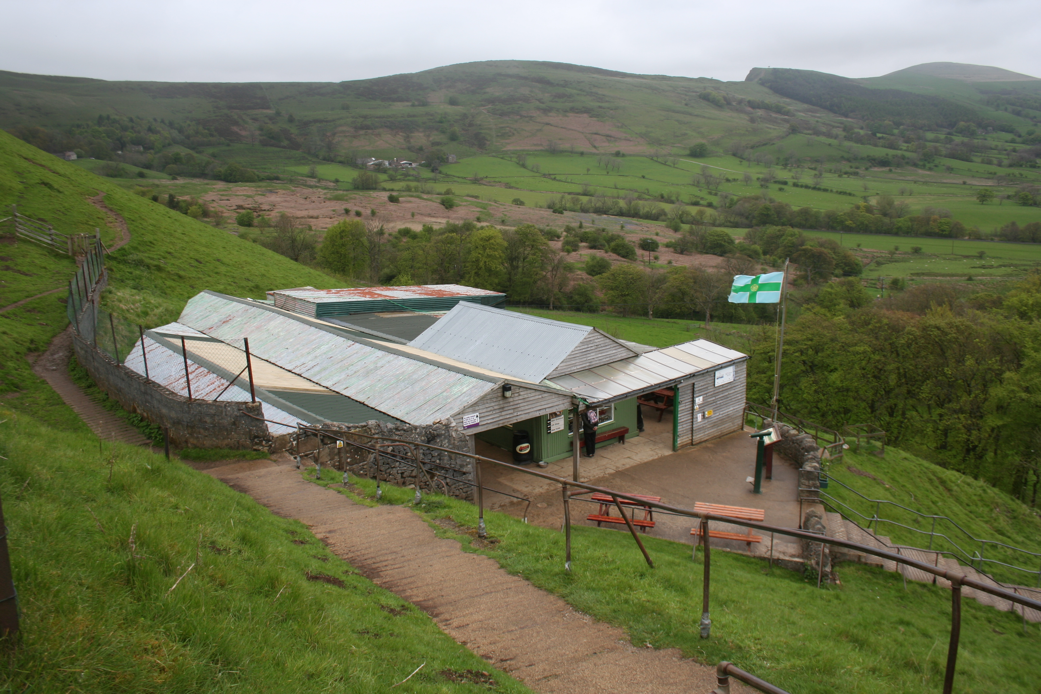 The view of the Treak Cliff Cavern visitor centre, office and workshop from the cavern exit.